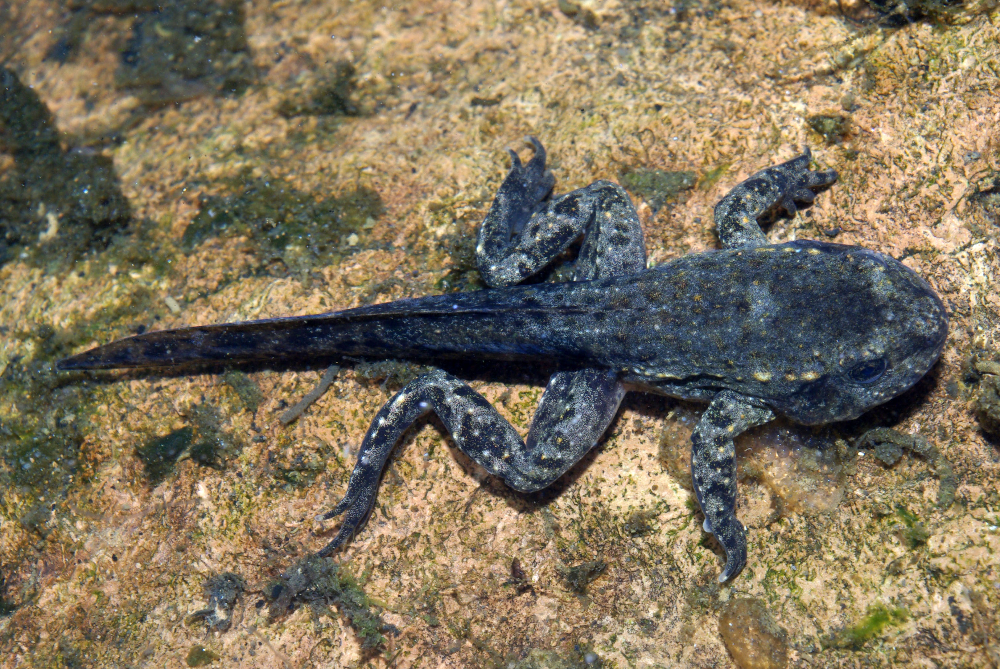 Tadpole of Iberian Frog (Rana iberica). River Boeza, Sil basin. Near San Román de Bembibre, León (Spain)